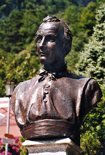 Monument for Alberich Zwyssig in Bauen